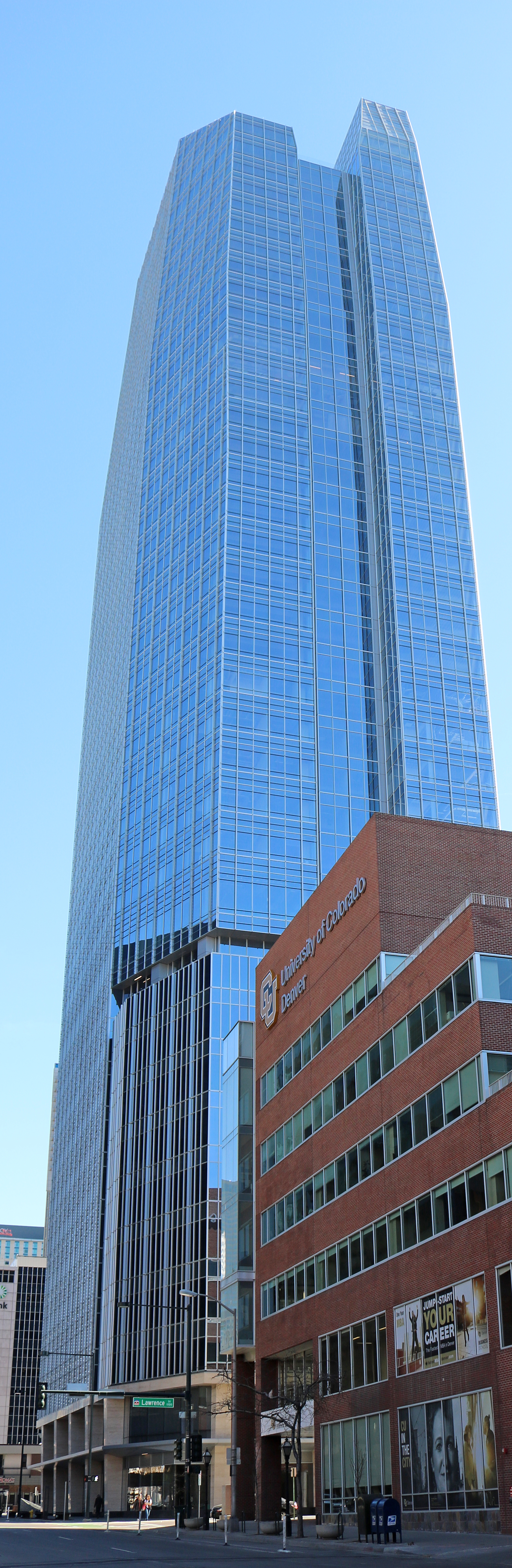 The 1144 Fifteenth Building, located at 1144 15th Street in Denver, Colorado.